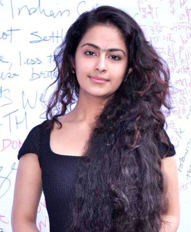 Avika Gor at the protest against Delhi rape case, 2012